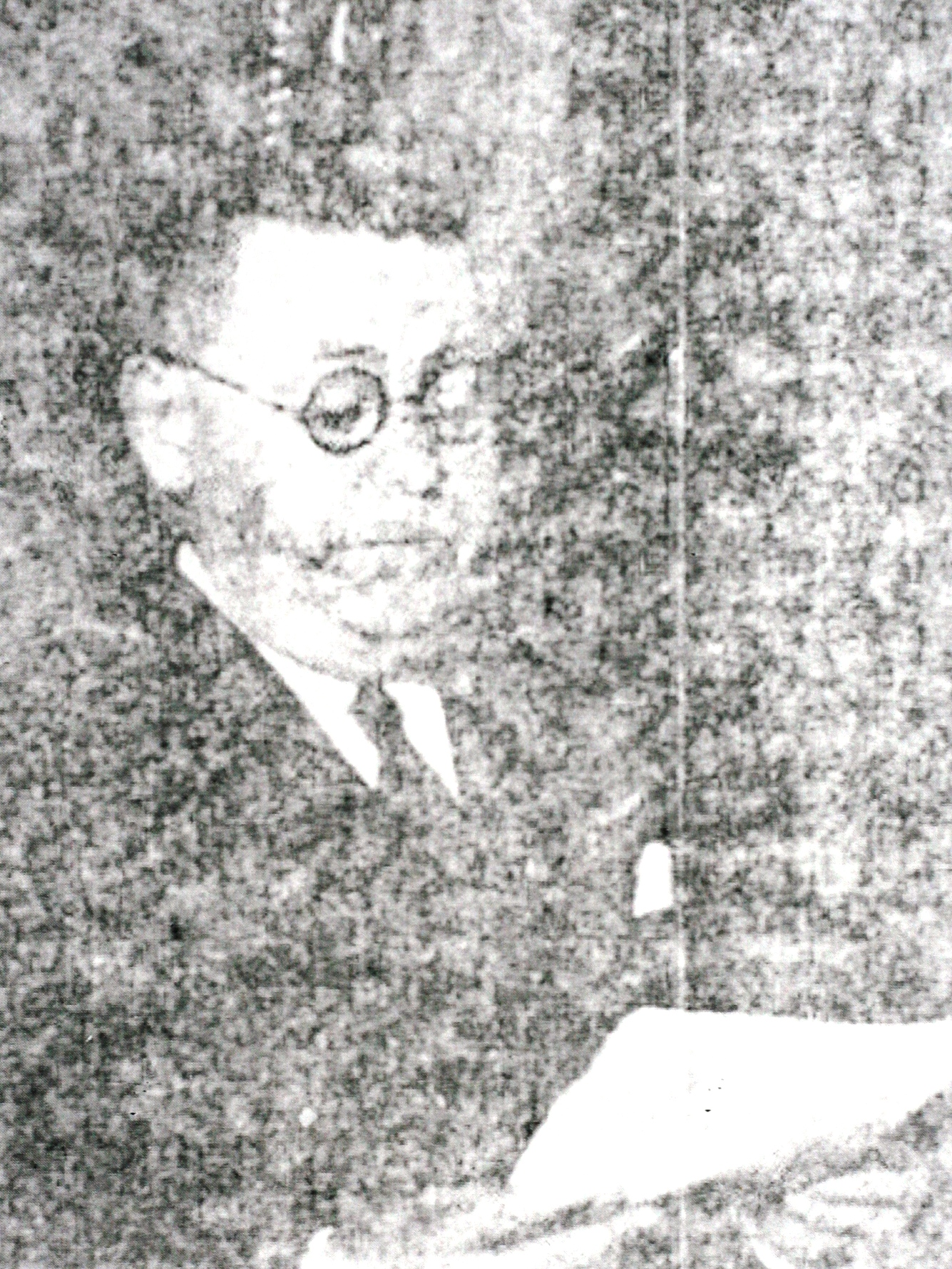 Claro Abánades López, giving public lecture